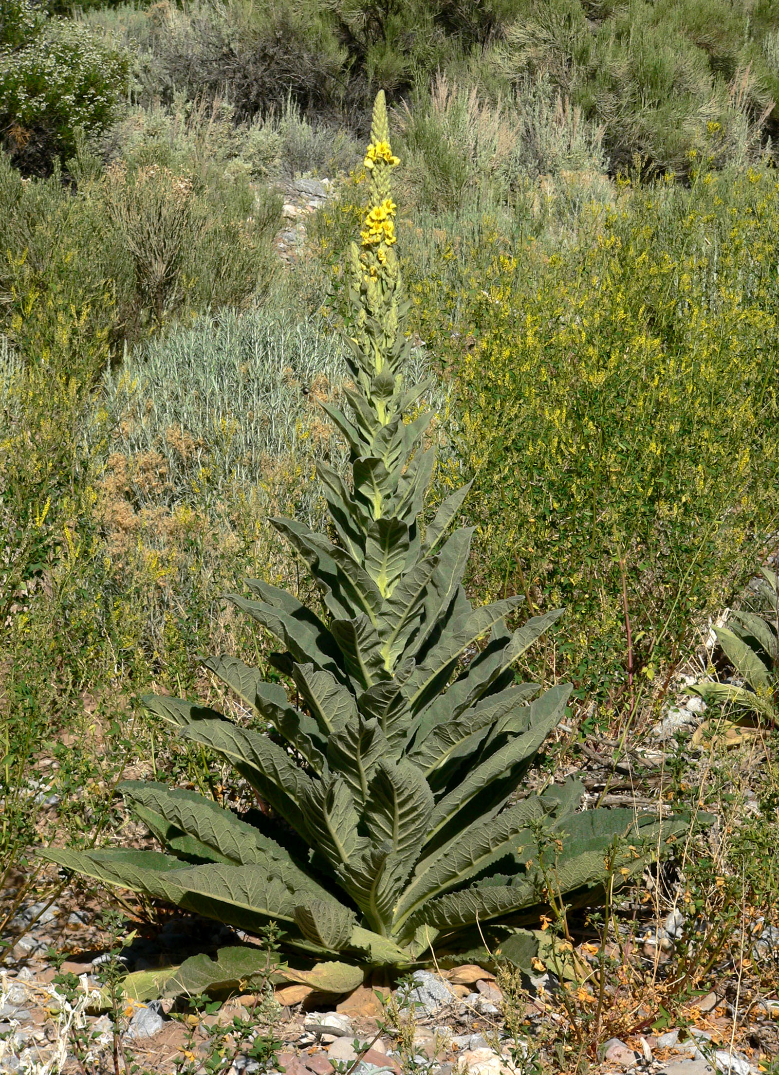 Verbascum thapsus in Lovell Canyon, Spring Mountains, southern Nevada